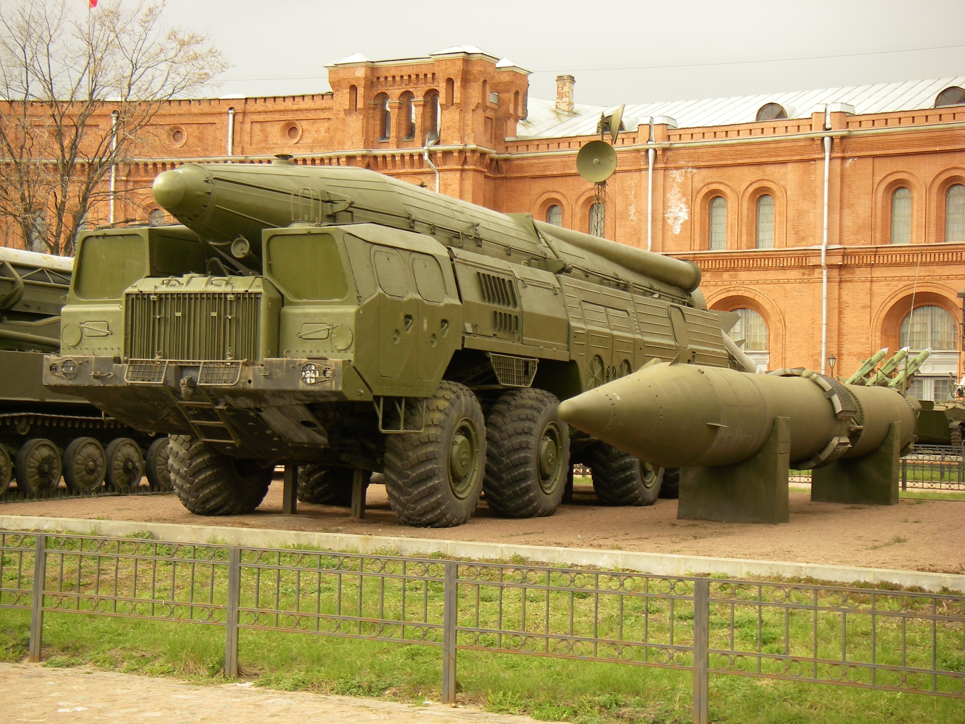 9P120 Transporter-Erector-Launcher with 9M76 rocket of 9K76 missile complex «Temp-S» in Saint-Petersburg Artillery museum